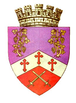 Coat of arms of Drăgășani, Vâlcea County, Romania.